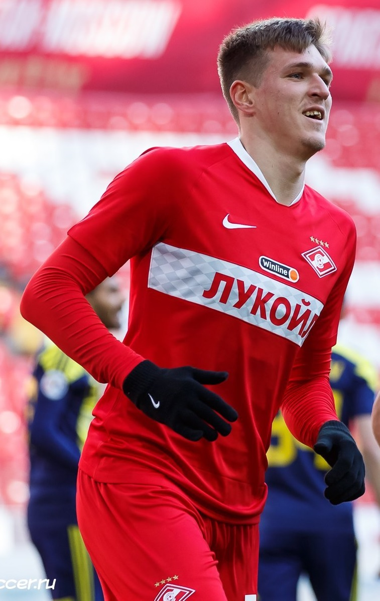 Aleksandr Sobolev playing for FC Spartak Moscow in a friendly game against Pakhtakor Tashkent.